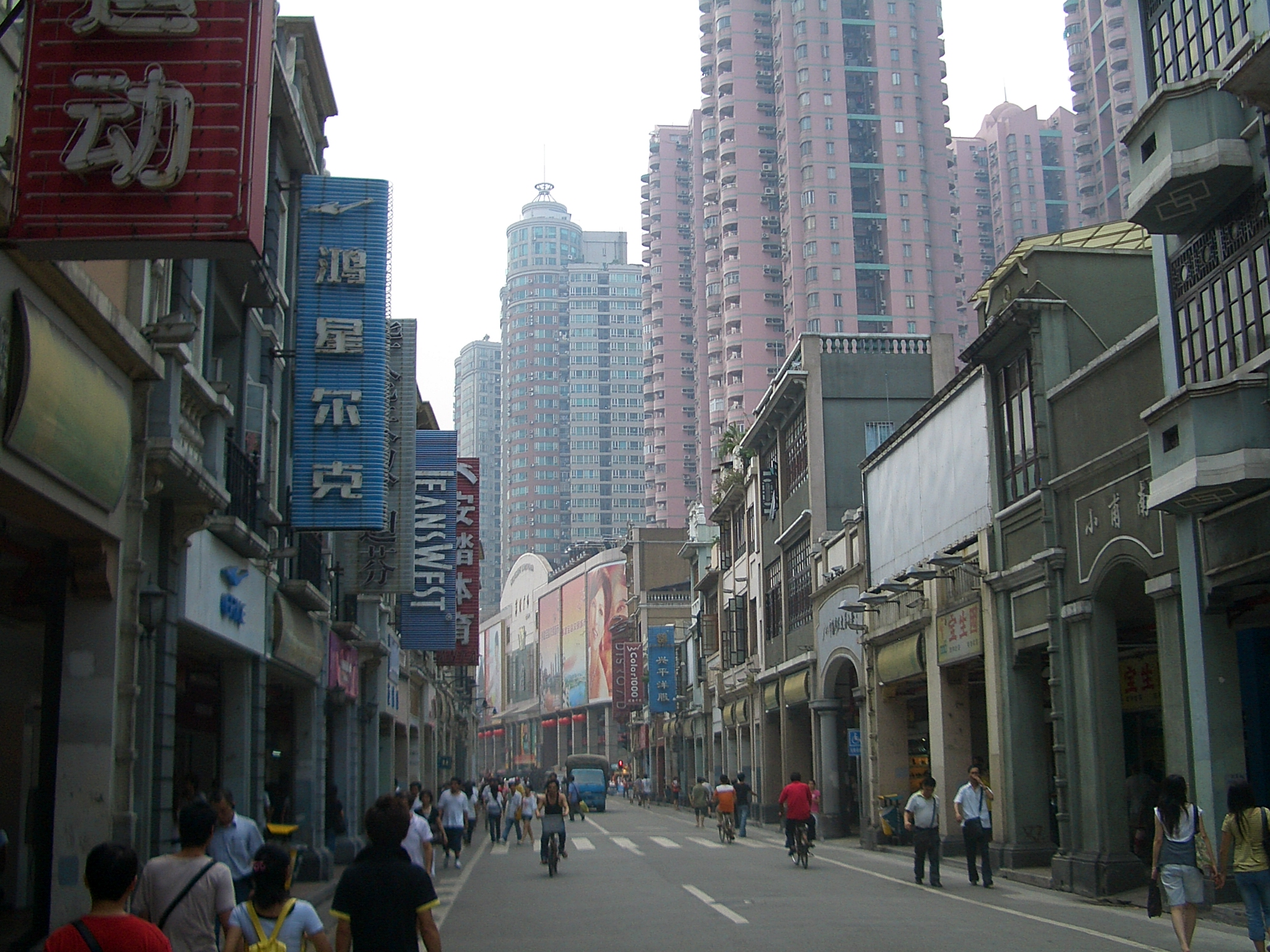 A shopping street in Central Guangzhou (not far from Shang Jiulu)